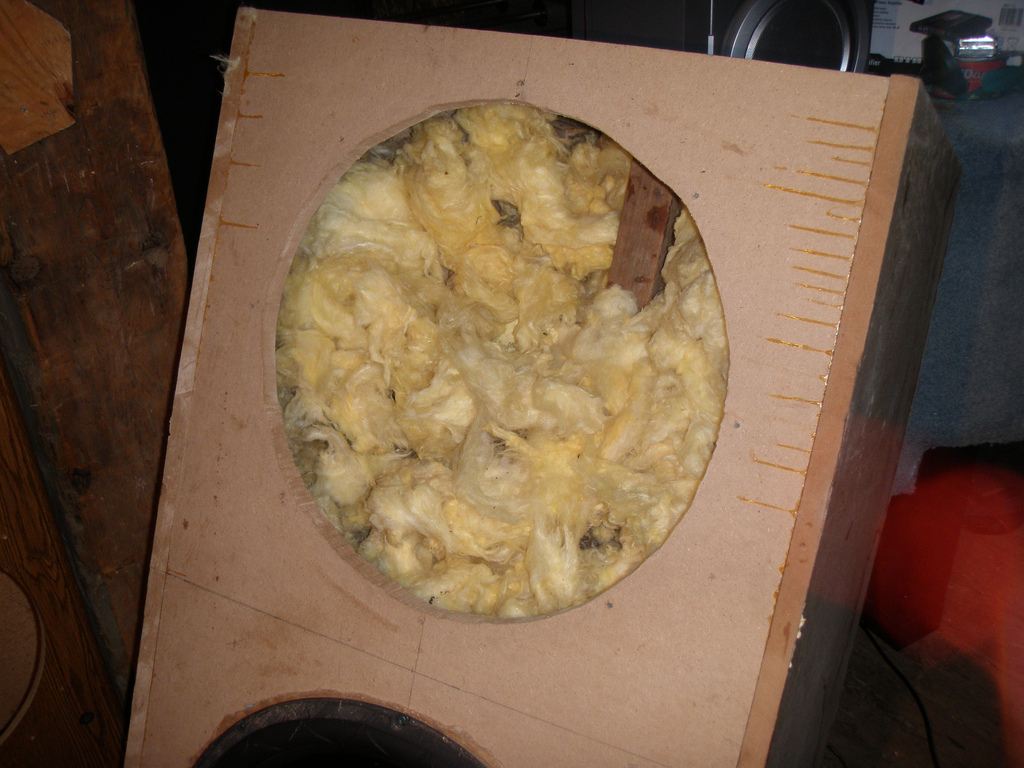 A loudspeaker enclosure